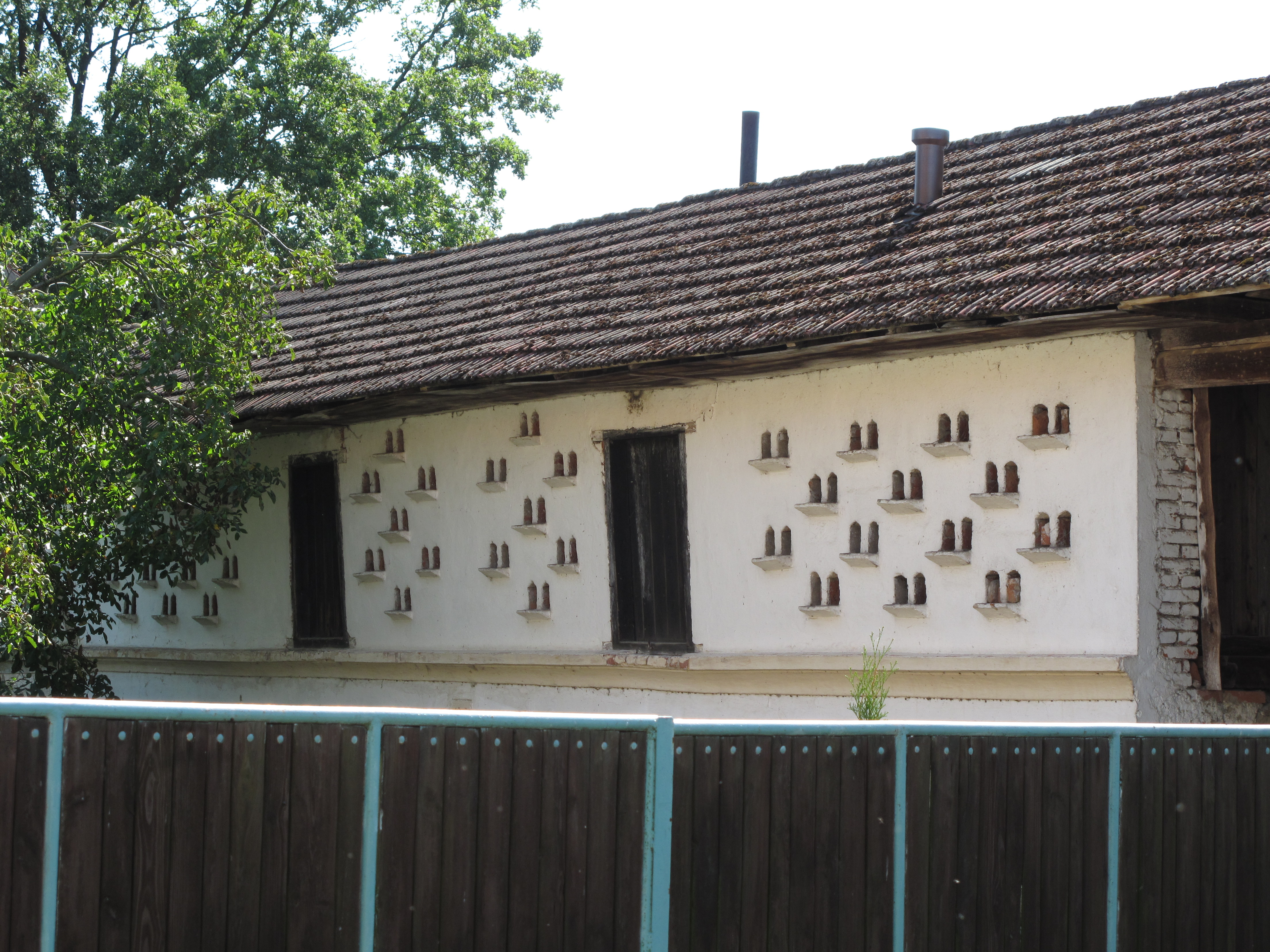 Detail of a dove-cot in Borečnice village, Písek District, Czech Republic.